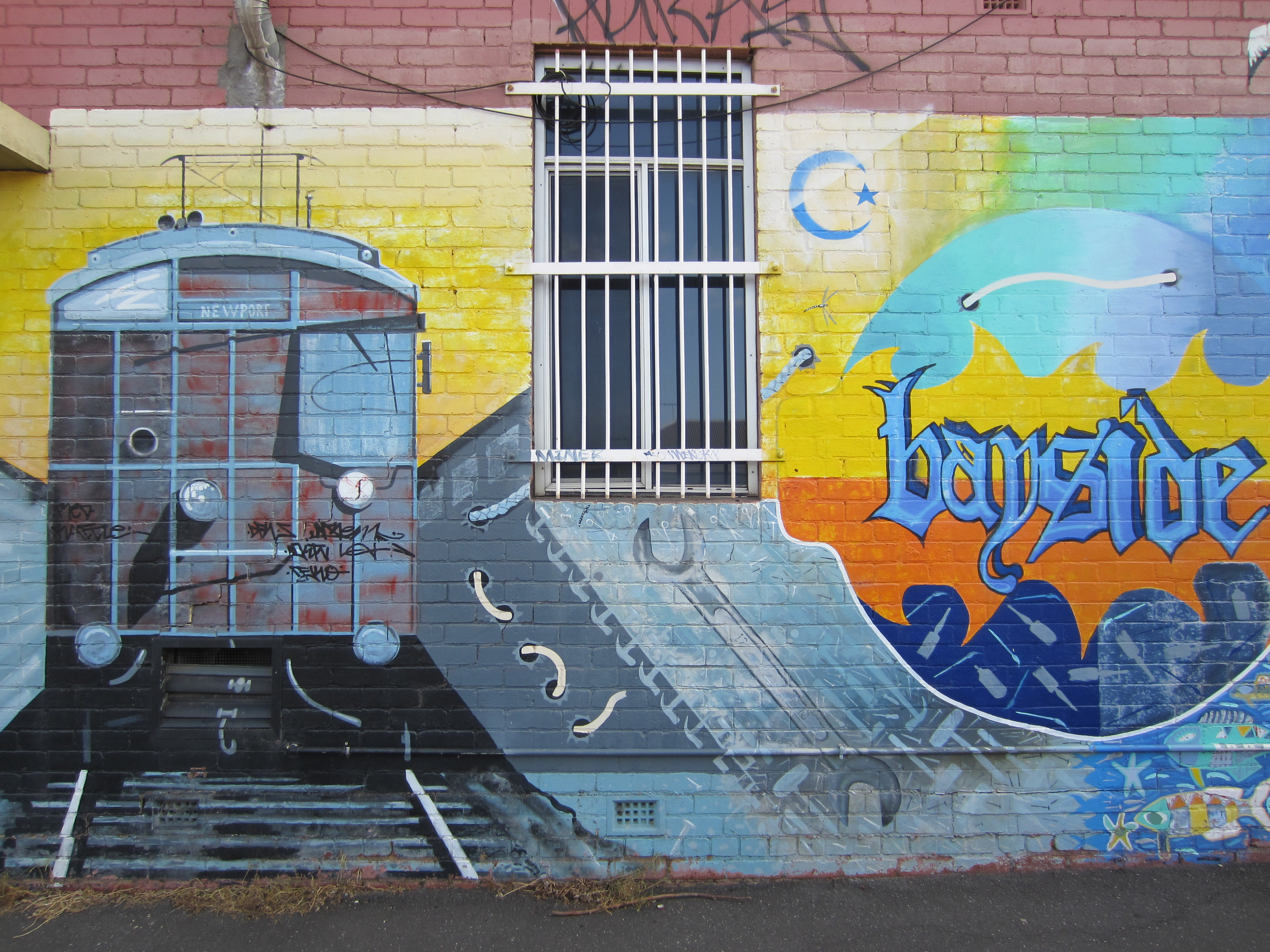 Street Art, off Hall St, Newport, Victoria